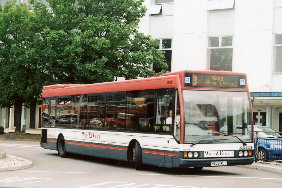 Wilts & Dorset 3609 (X609 WLJ), an Optare Excel, seen in Poole in July 2007 on route 3. This bus was originally used on Salisbury park and ride routes.